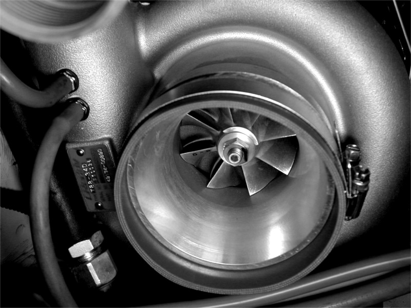 A turbocharger